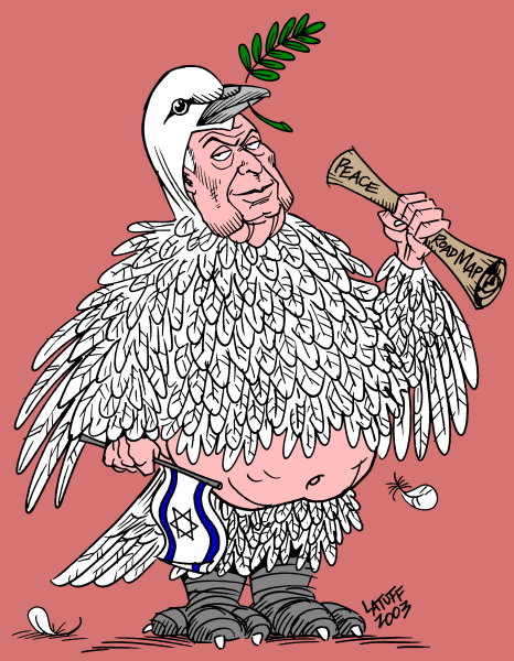 Is Ariel Sharon a peace dove?